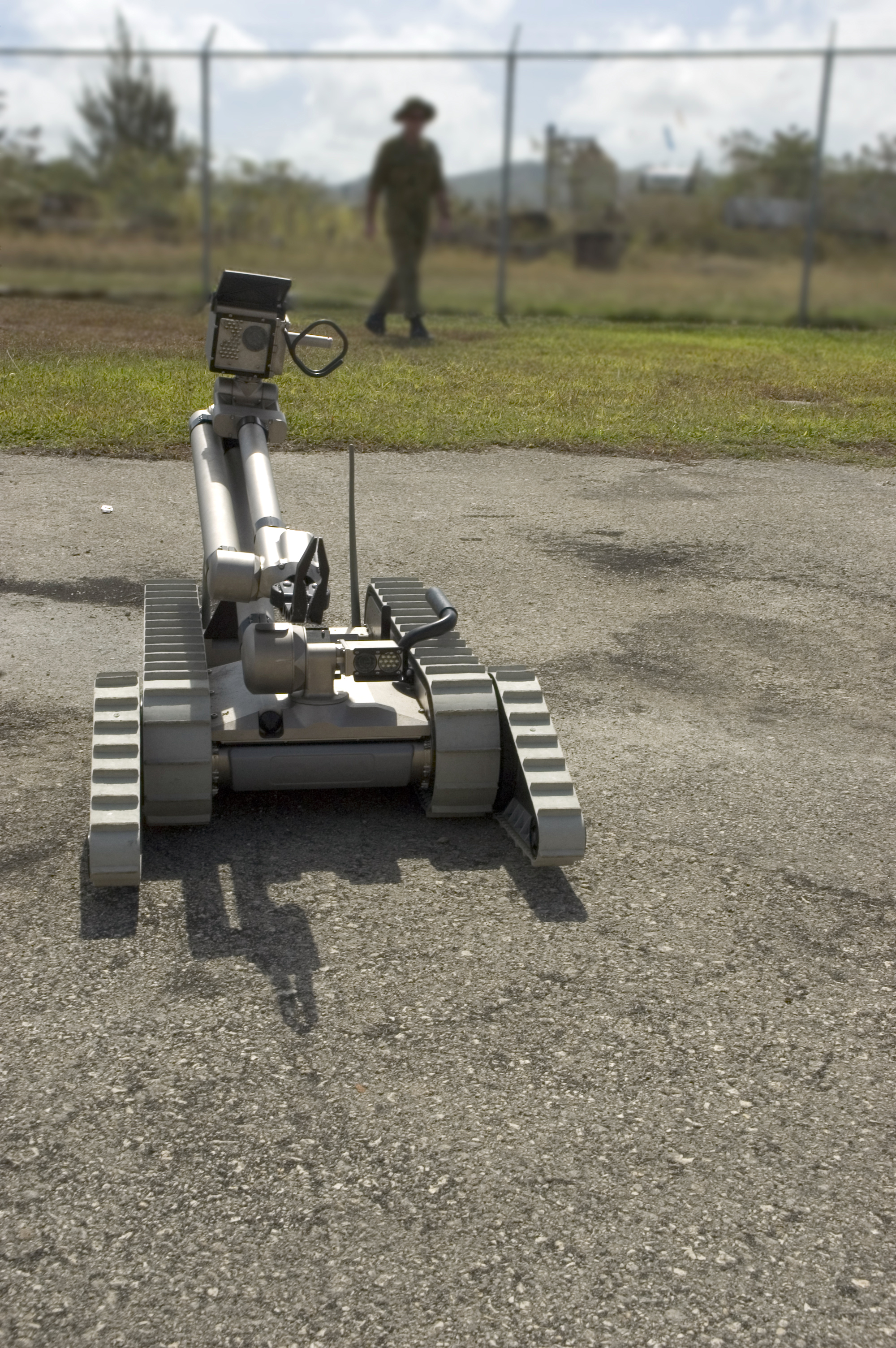 Santa Rita, Guam (April 19, 2006) - A Pack Robot is demonstrated at the Explosive Ordnance Disposal Mobile Unit Five (EODMU-5) compound on board Naval Base Guam during "Tricrab 2006." Tricrab brings together explosive ordnance disposal units from the United States, Australia and Singapore. U.S. Navy photo Photographer's Mate 2nd Class Edward N. Vasquez (RELEASED)